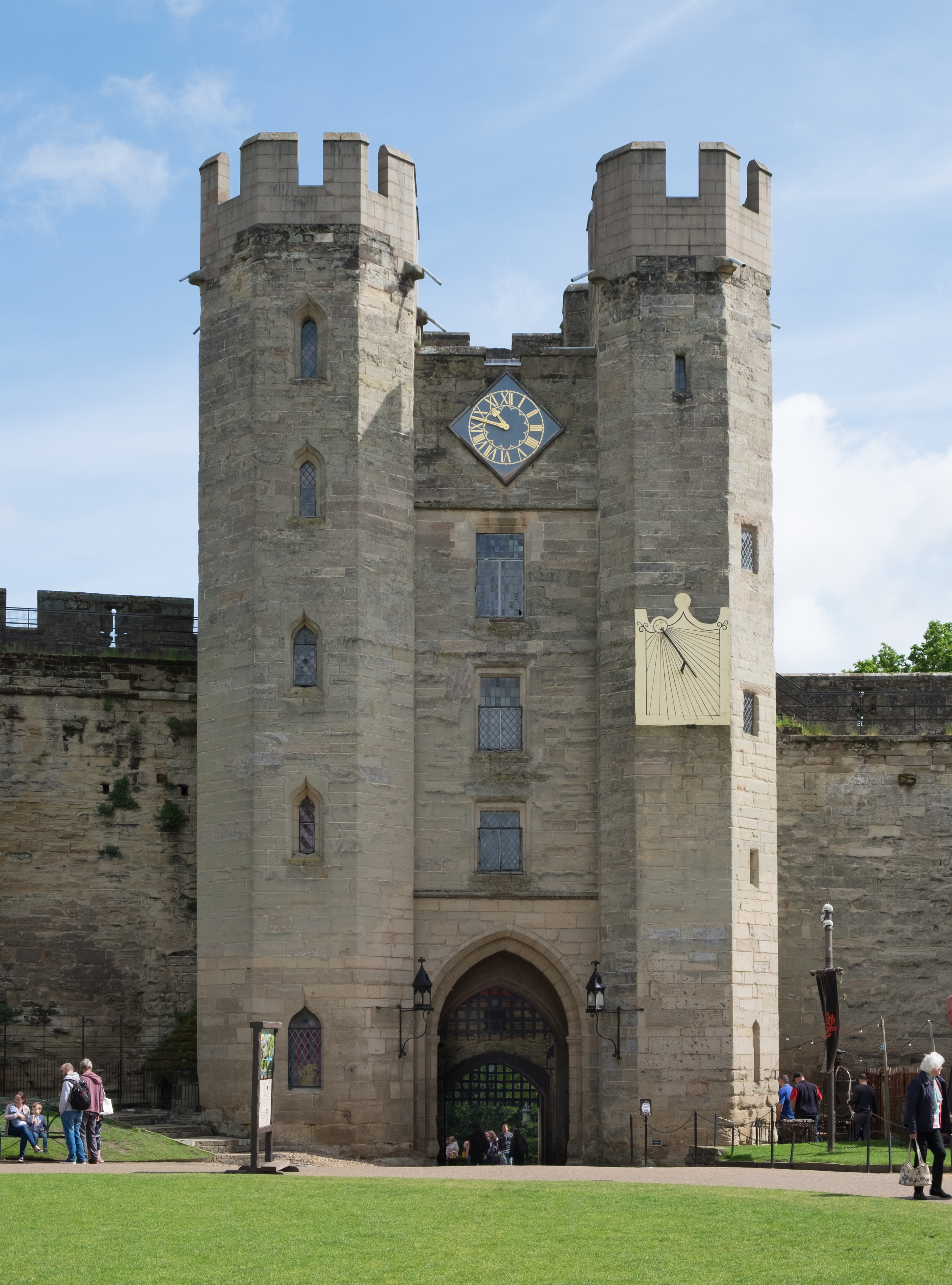 Warwick Castle Gatehouse from inside the central courtyard. This 14th century structure is part of Warwick Castle, a Grade I listed building in England.